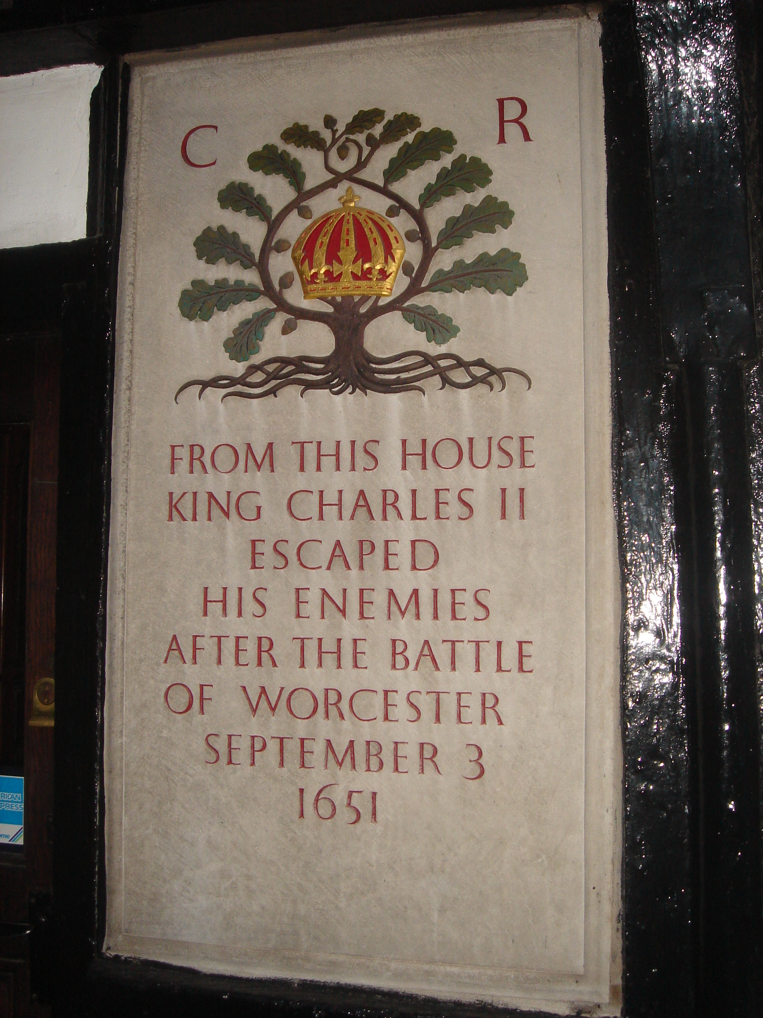 Charles II escape house sign - FROM THIS HOUSE KING CHARLES II ESCAPED FROM HIS ENEMIES AFTER THE BATTLE OF WORCESTER SEPTEMBER 3 1651